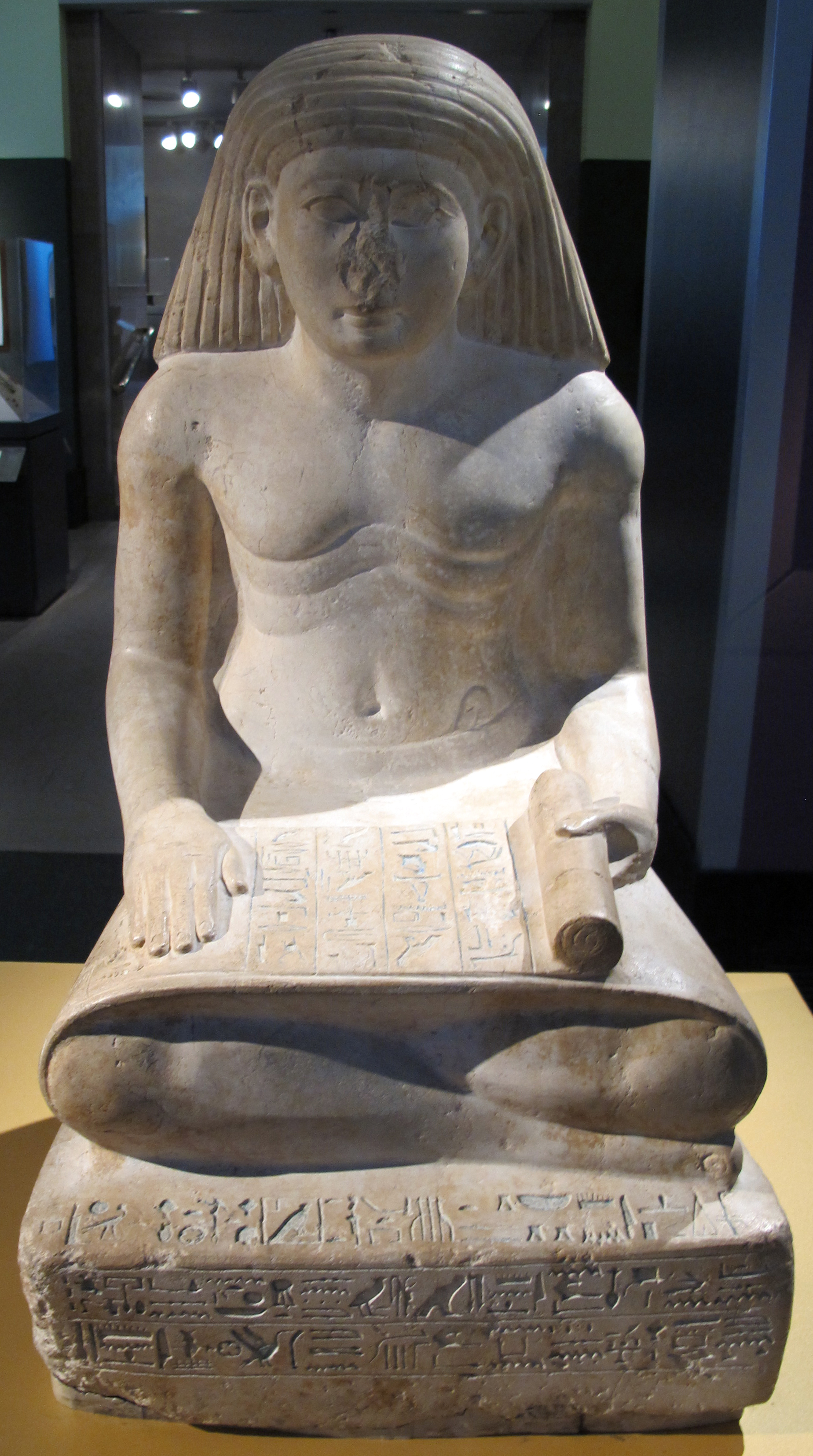 Egyptian antiquities in the Brooklyn Museum